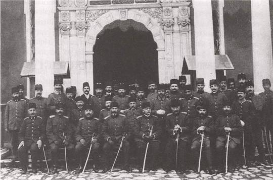 A group of the teaching staff in front of the entrance-gate of the Ottoman Imperial School of Military Engineering.